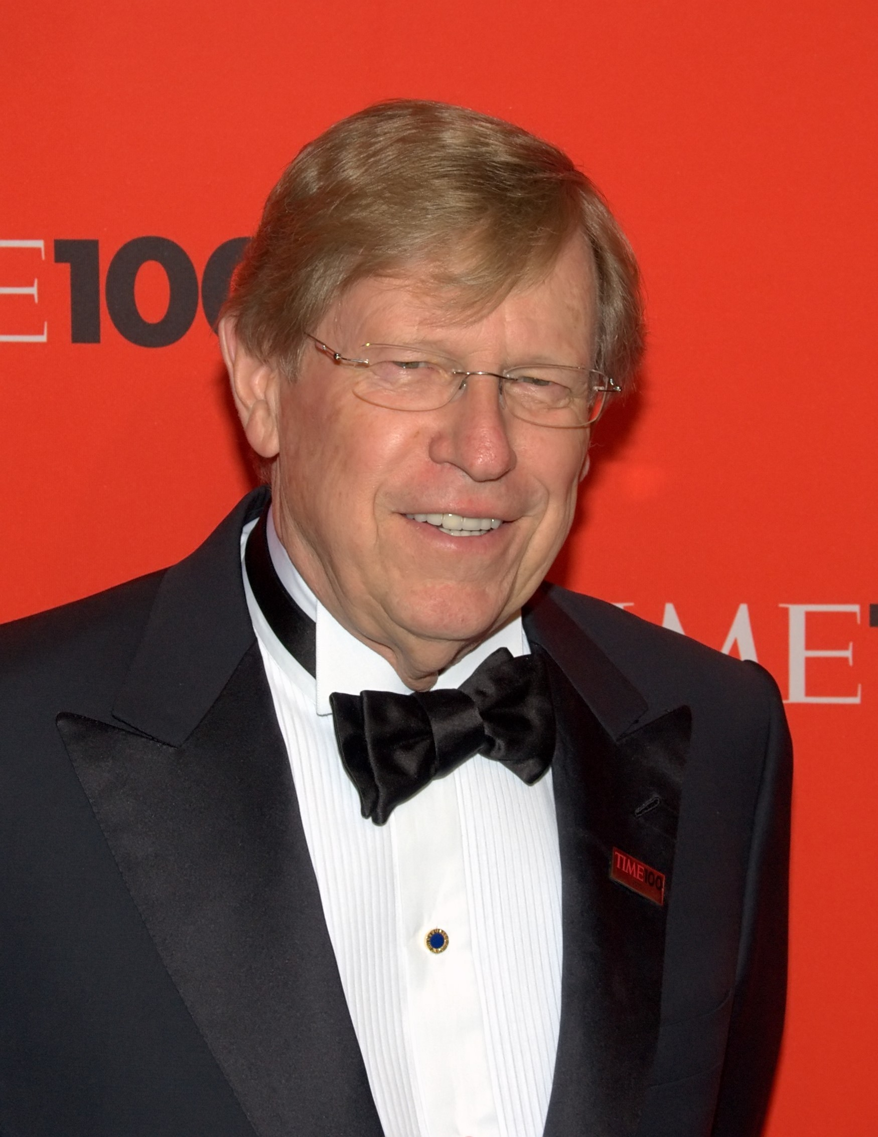 Theodore Olson at the 2010 TIME 100 Gala